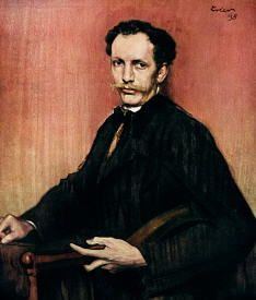 Portrait Richard Strauß by Friz Erler.